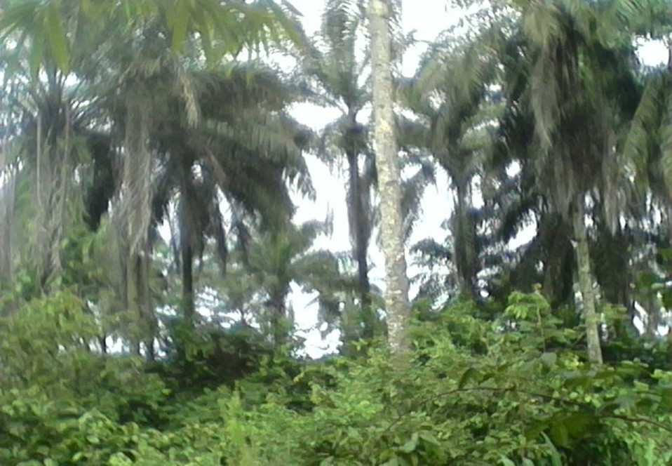 Oil Palm plantation in Awo-omamma